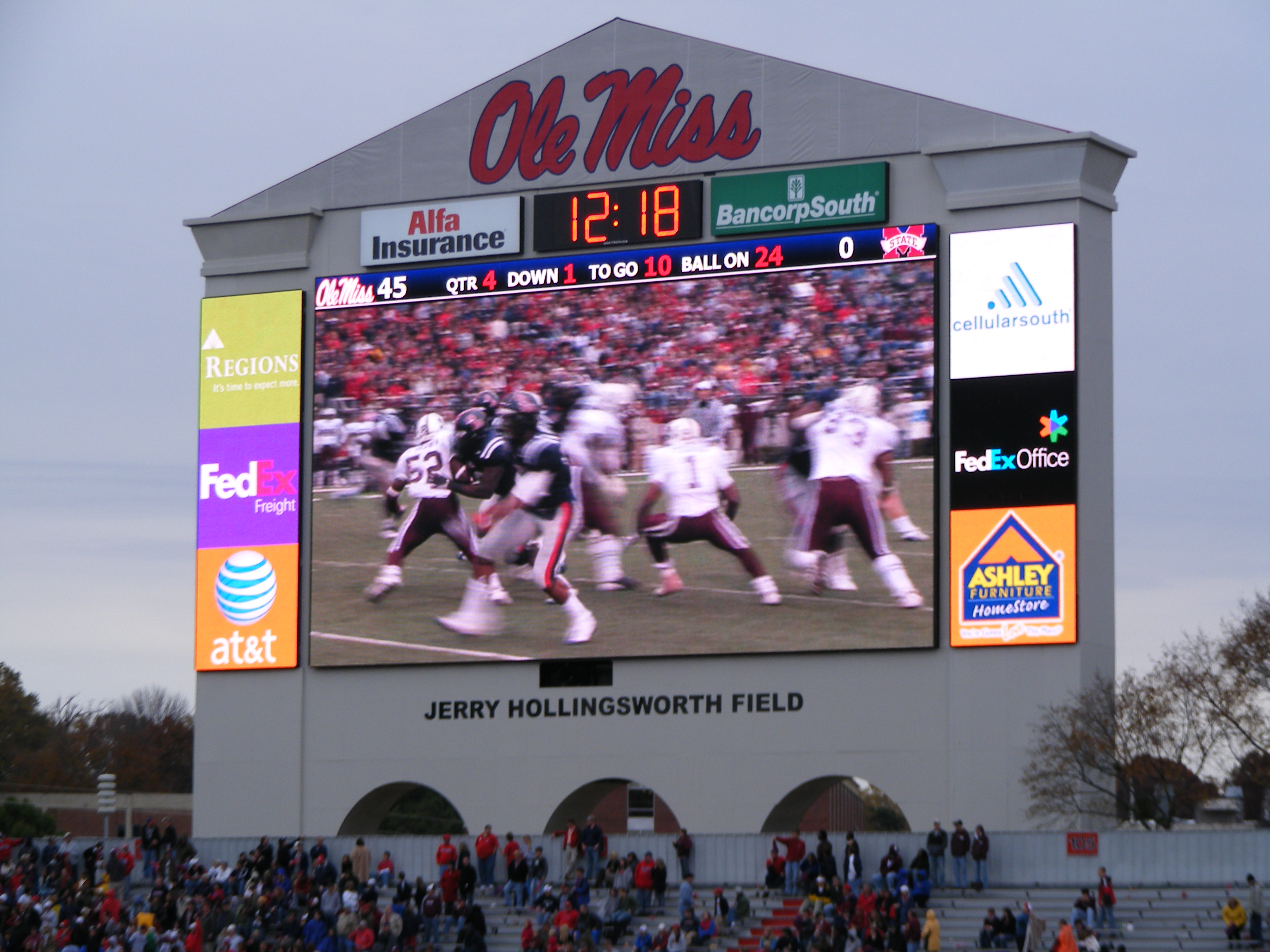 Ole Miss Rebels new high definition display